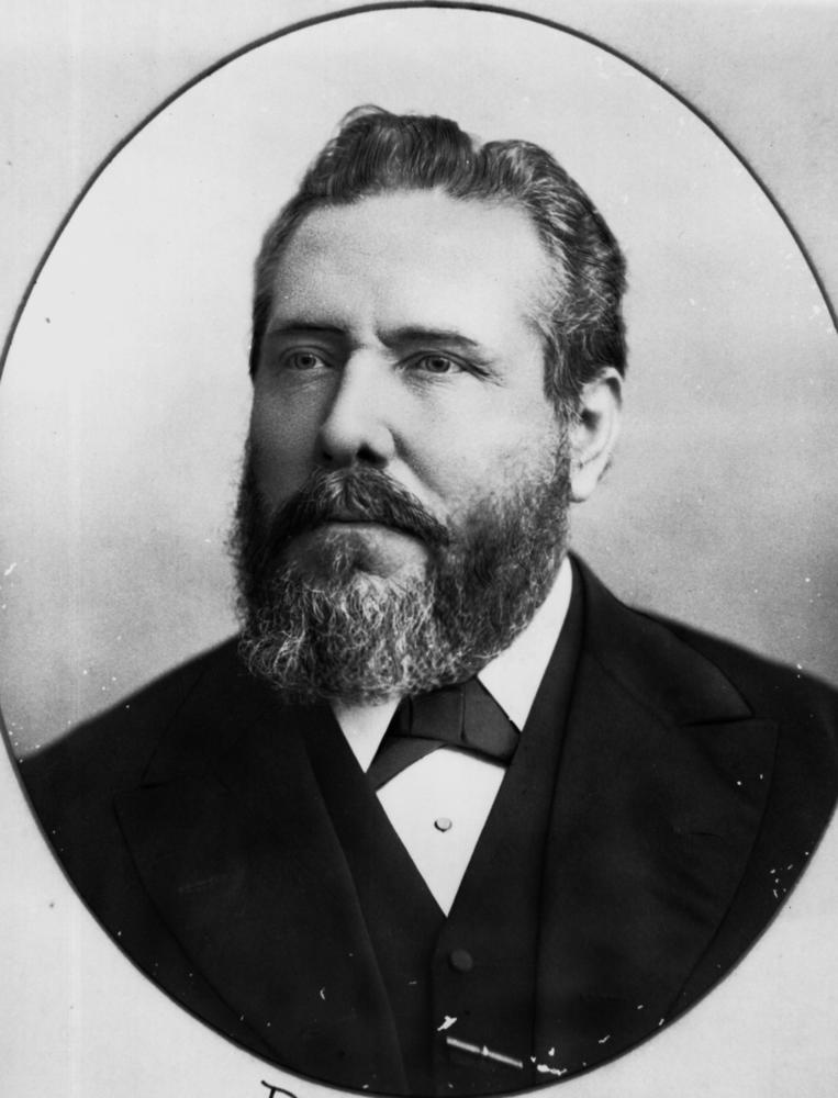 Reverend William Whale William Whale was the pastor of the City Tabernacle [Baptist Church] Brisbane.